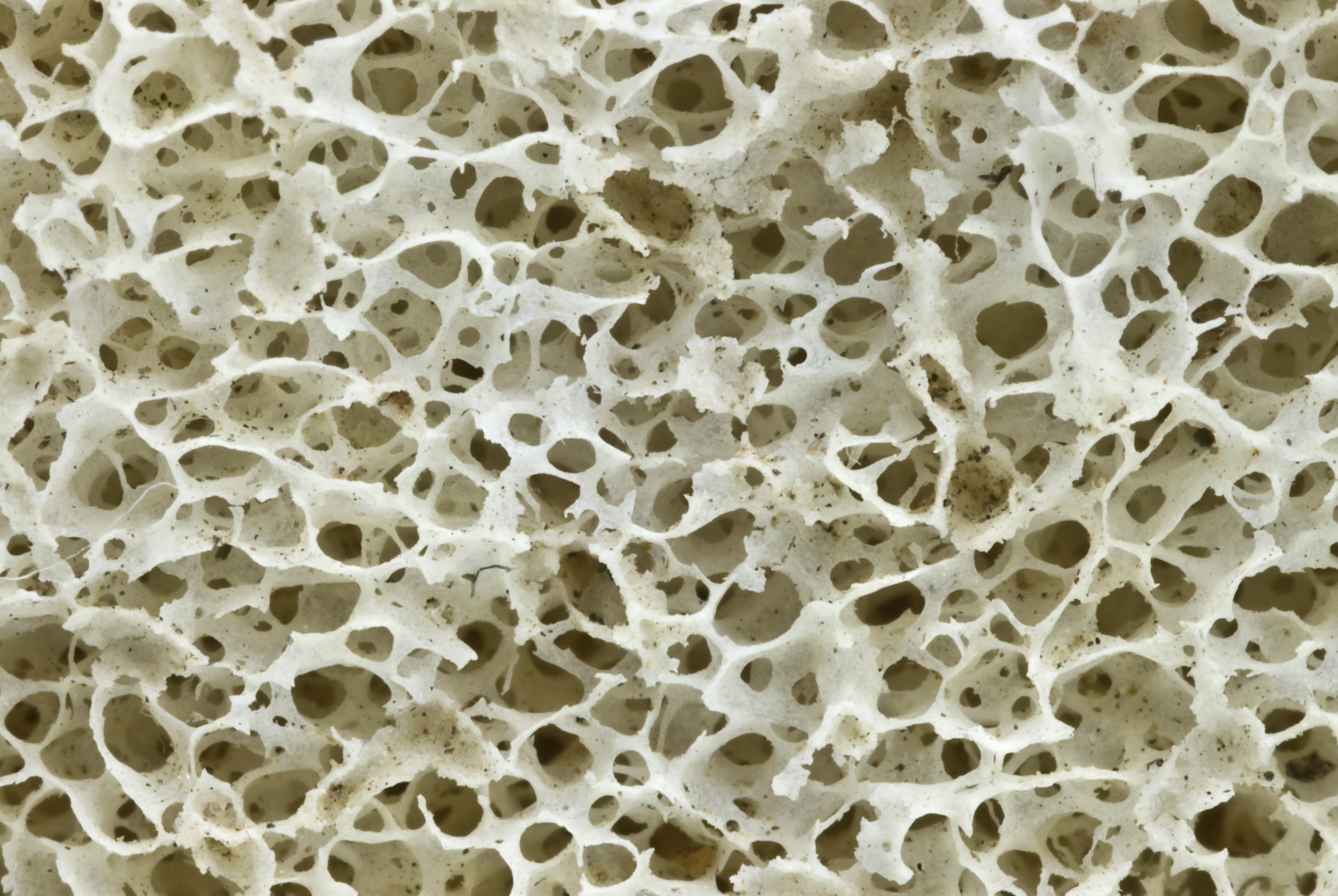 macro cross-section of human hip bone for you texture lovers....